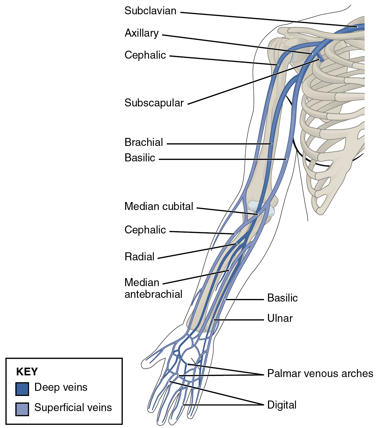 Illustration from Anatomy & Physiology, Connexions Web site. Jun 19, 2013.